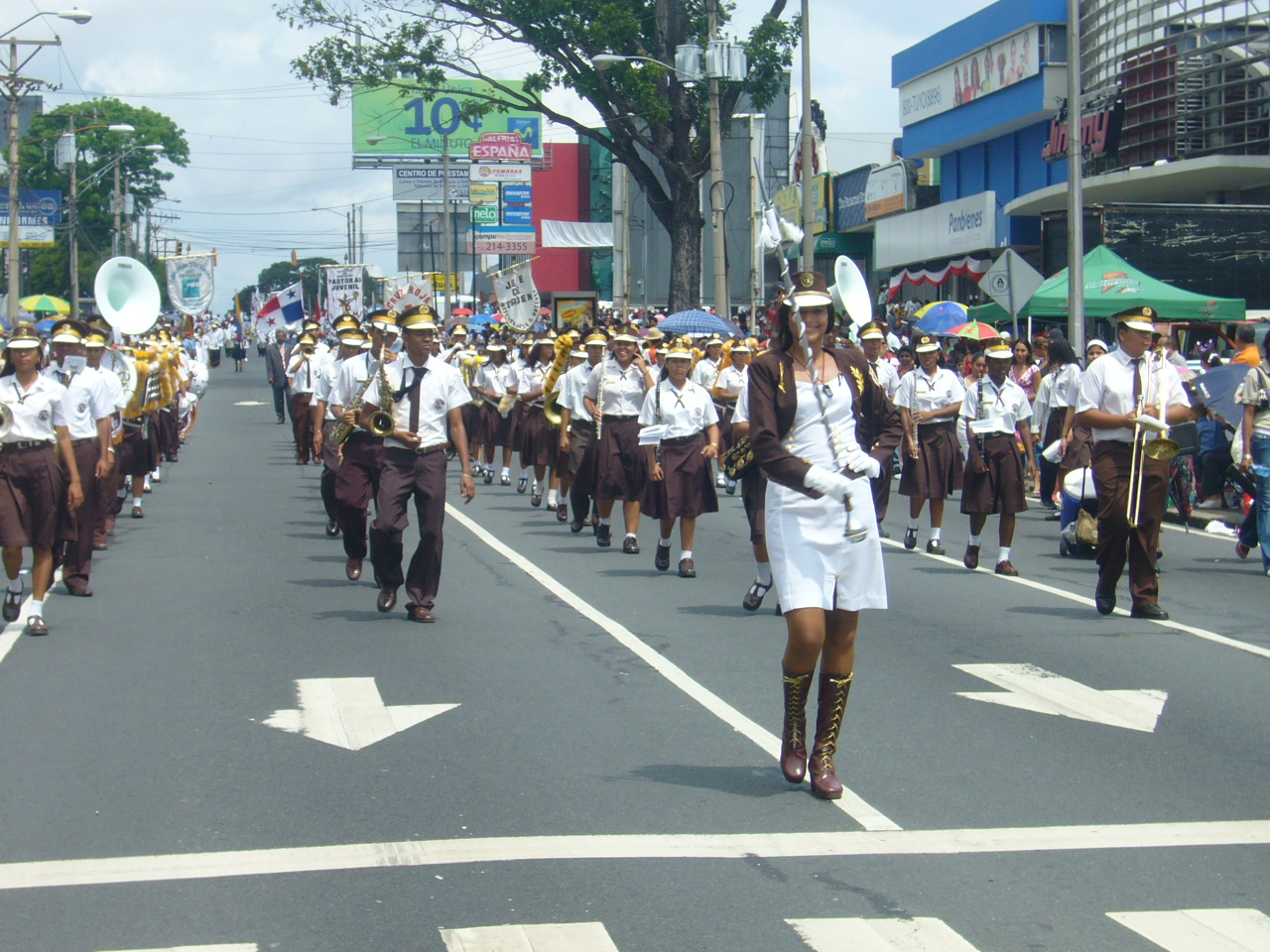 Marching band in Panama